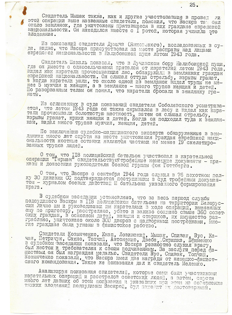 The sentence to Hryhoriy Vasiura, an executioner of the Khatyn massacre, handed down by the Tribunal of the Belorussian Military District on December 26, 1986. (in Russian) Central Archive of the KGB (State Security Agency) of the Republic of Belarus. Arch. criminal case 26746